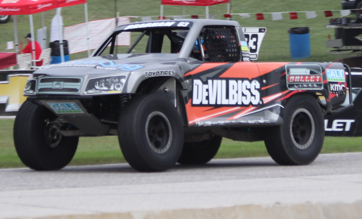 The 2018 Speed Energy Formula Off-Road truck of Matt Brabham at Road America